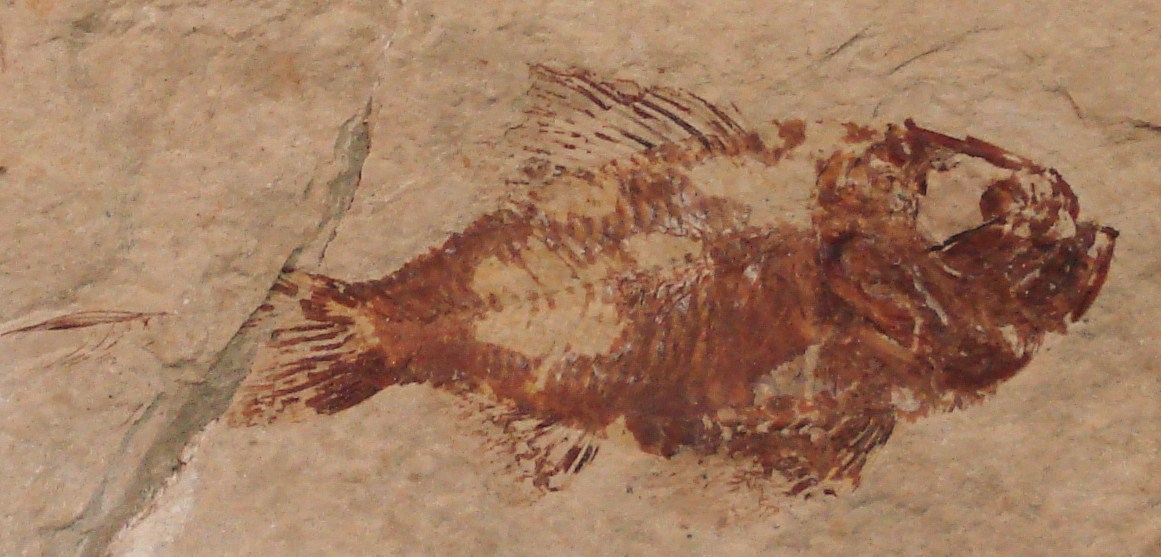 Fossil of Ctenothrissa vexillifer, an extinct fish